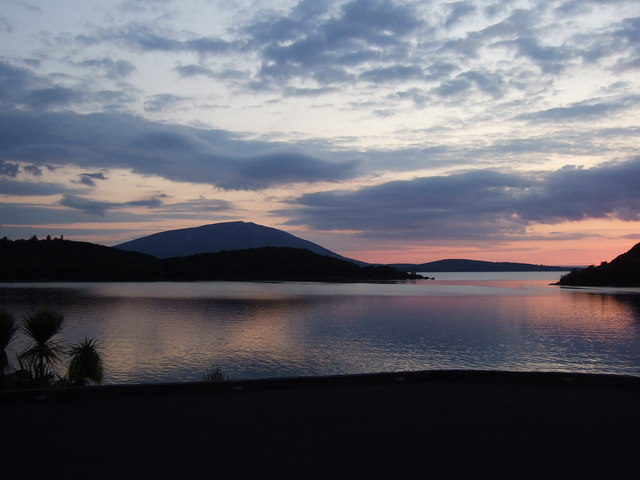 Lough Conn and Nephin A view of sunset over Lough Conn with Nephin to the northwest, taken from the terrace of Pontoon Bridge Hotel.